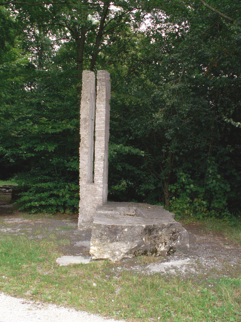 Skulpturenfeld Oggelshausen Bildhauersymposium 2000 Michael Dan Archer, Heiligtum